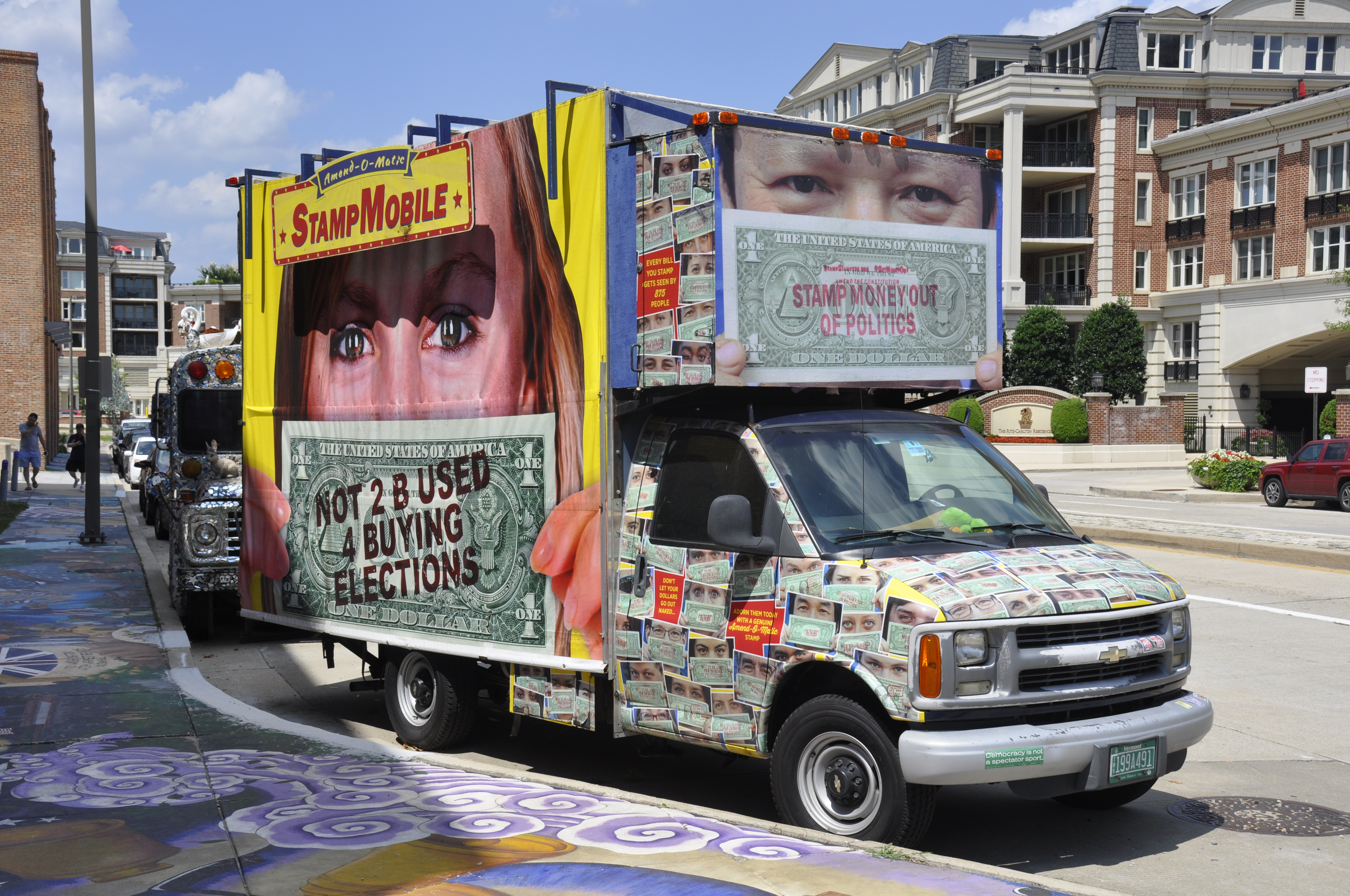 The Amend-O-Matic Stamp Mobile, part of Stamp Stampede